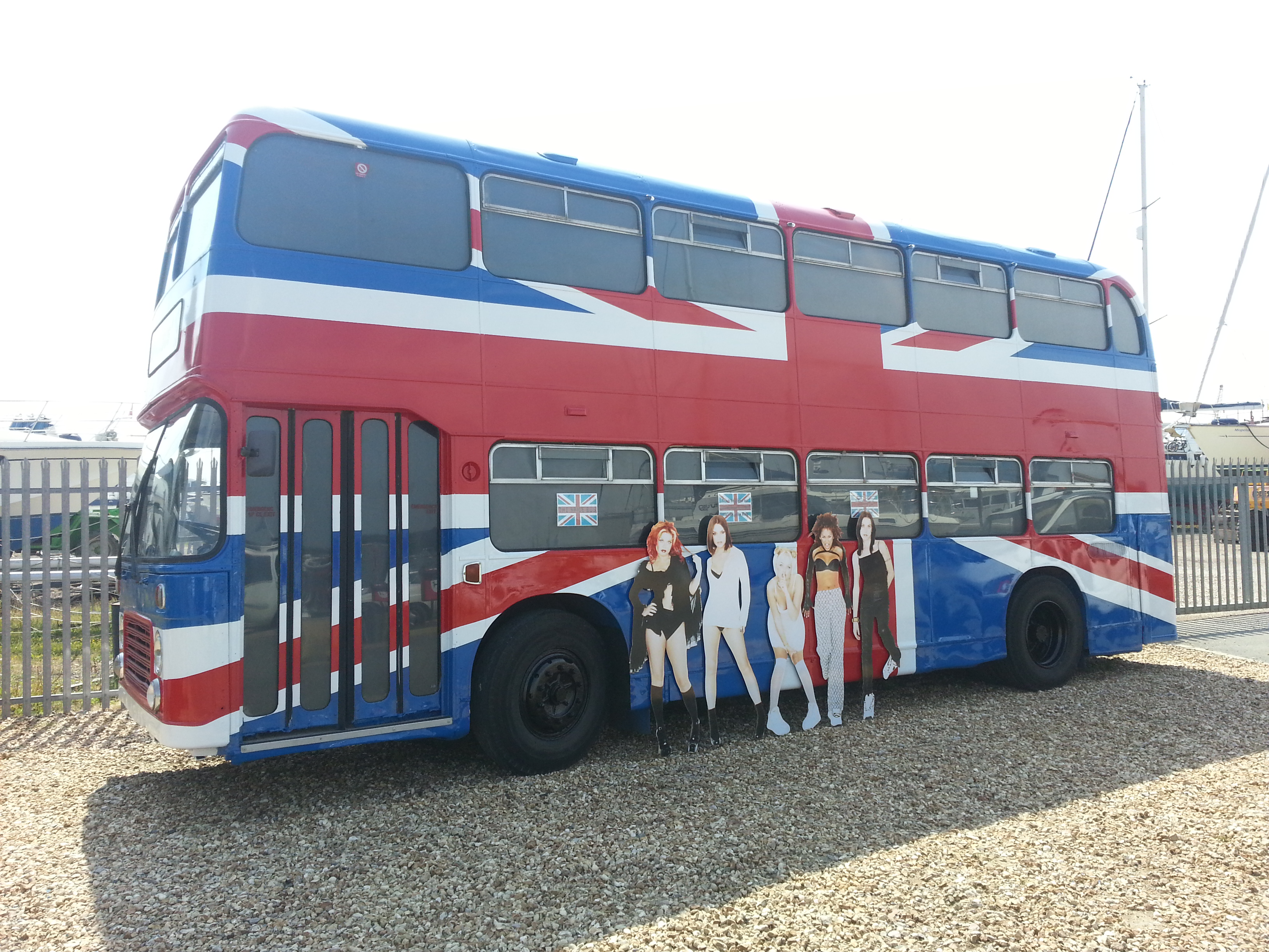 The actual bus used in the Spice World movie.